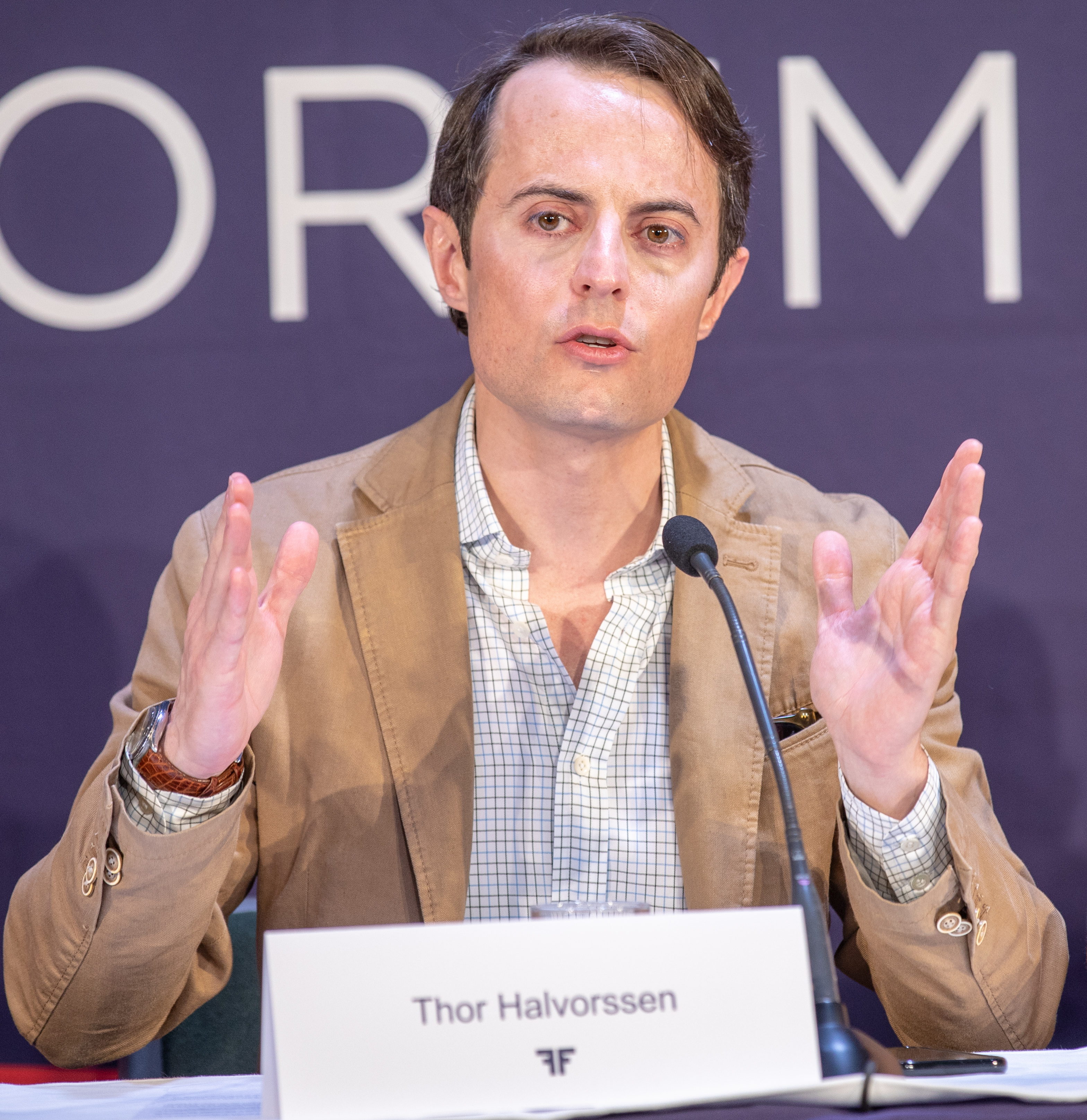 Thor Halvorsen at the press conference of the 2018 Oslo Freedom Forum.